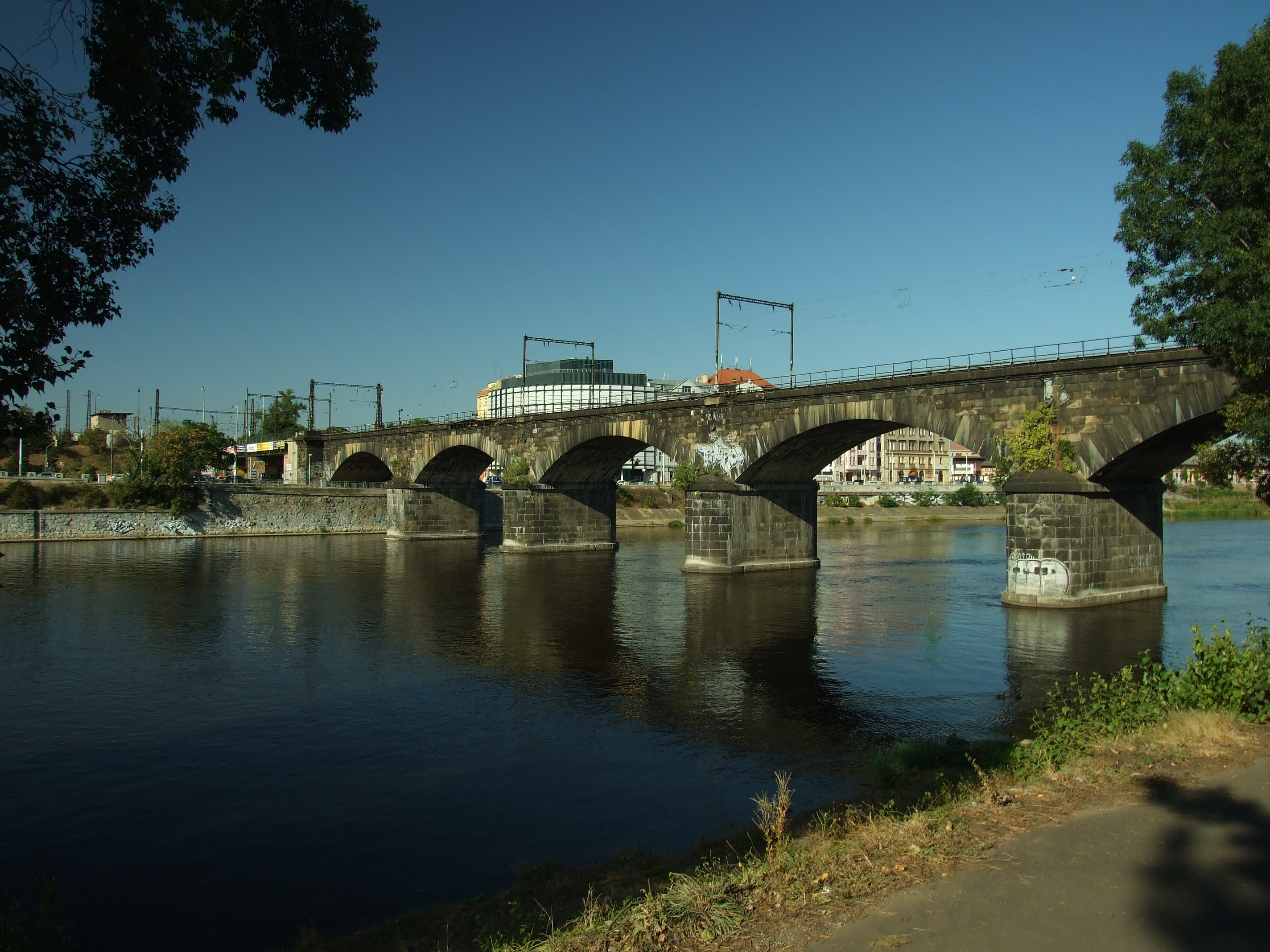 Negrelli rail bridge here seen from Štvanice island, Prague CZhelp